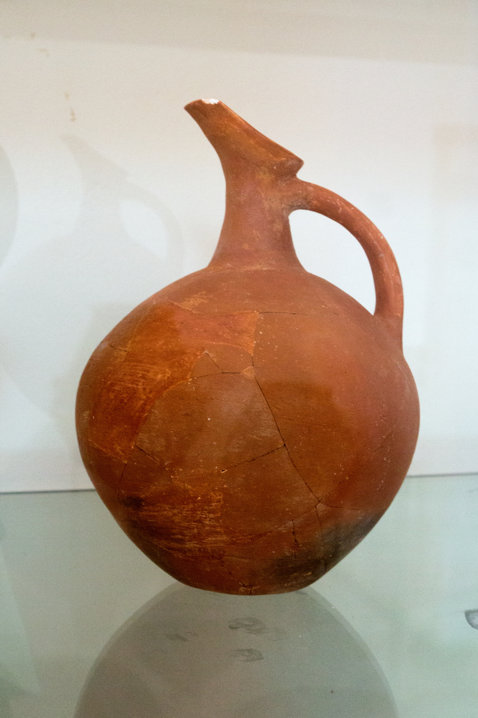 Early Bronze Age pottery, Early Helladic II period, second phase. Jug. Aegina, Town III, 2400-2300 BC. Archaeological Museum of Aegina.